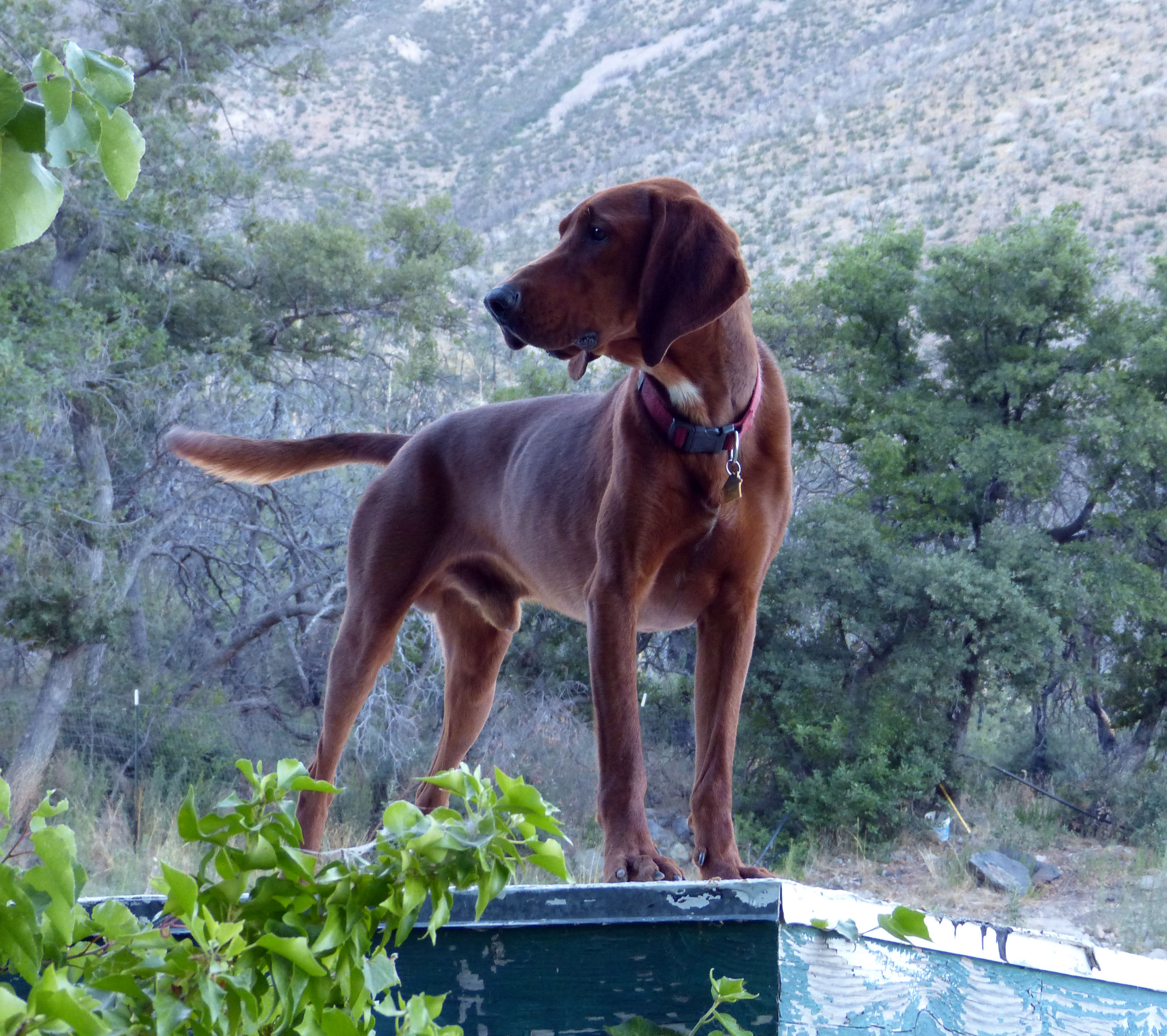 'Red'......Houndog of distinction